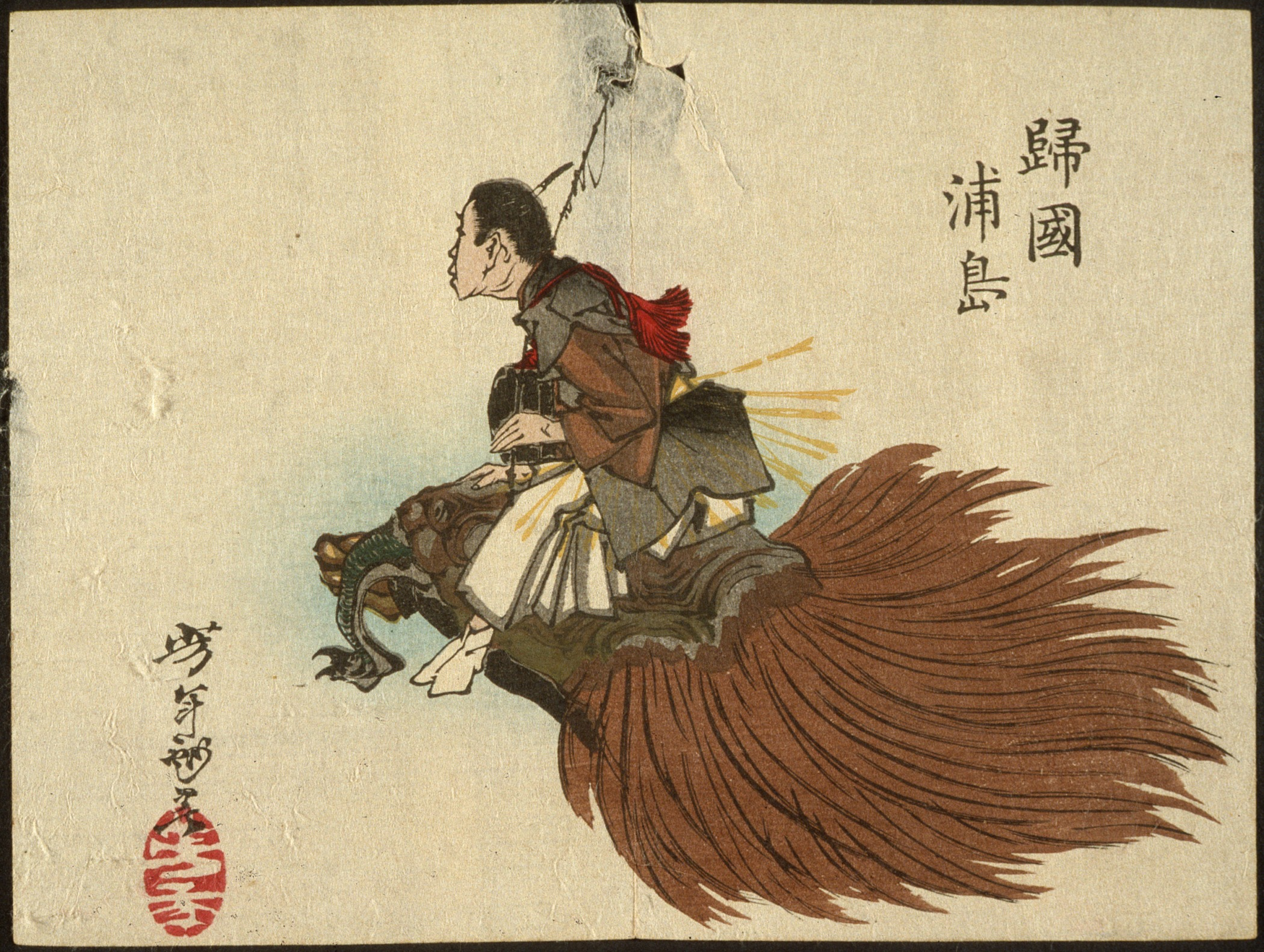 Japan, 5/1882 Series: Sketches by Yoshitoshi Prints; woodcuts Color woodblock print Herbert R. Cole Collection (M.84.31.349) Japanese Art